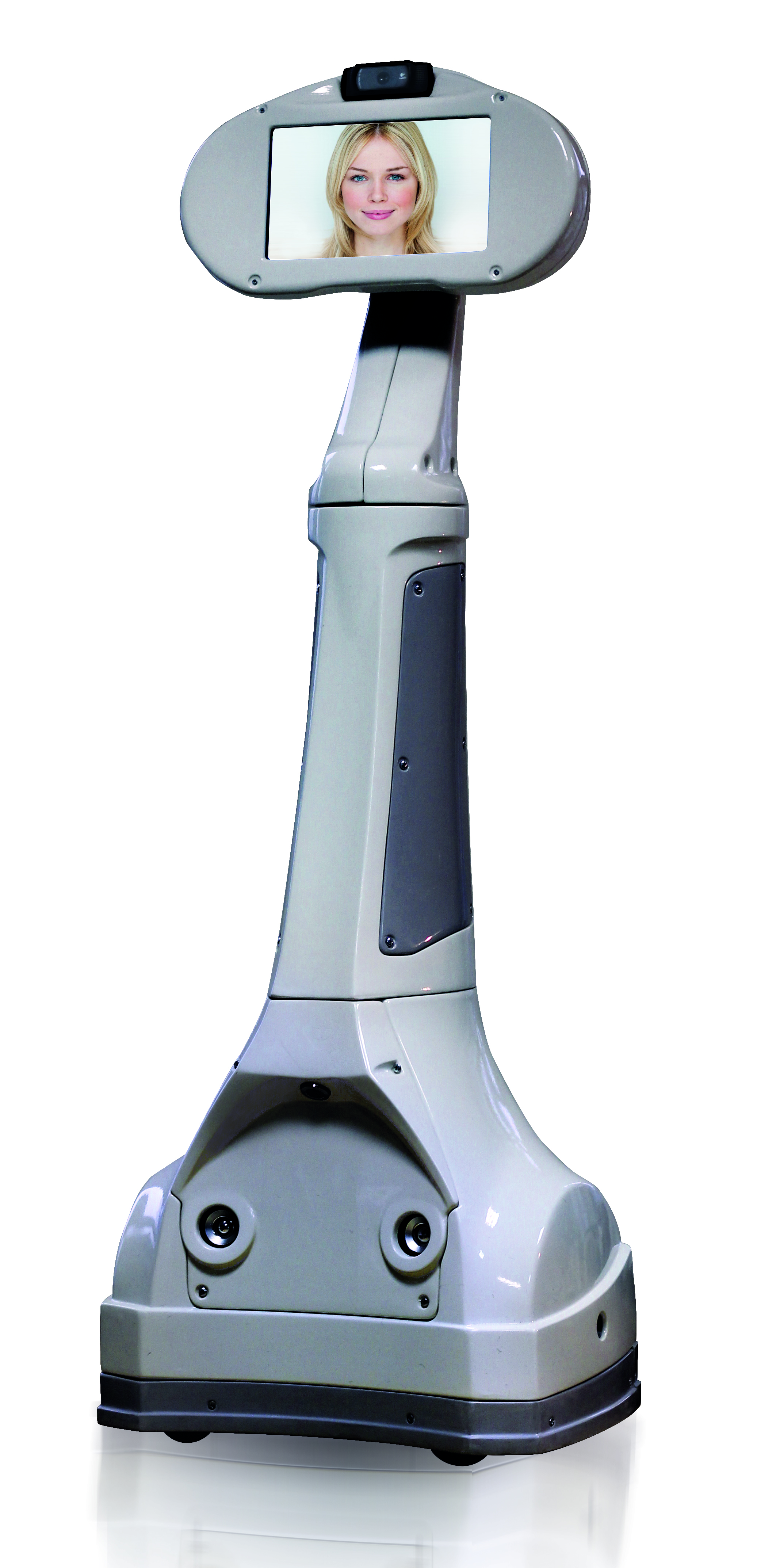 telepresence robot Webot